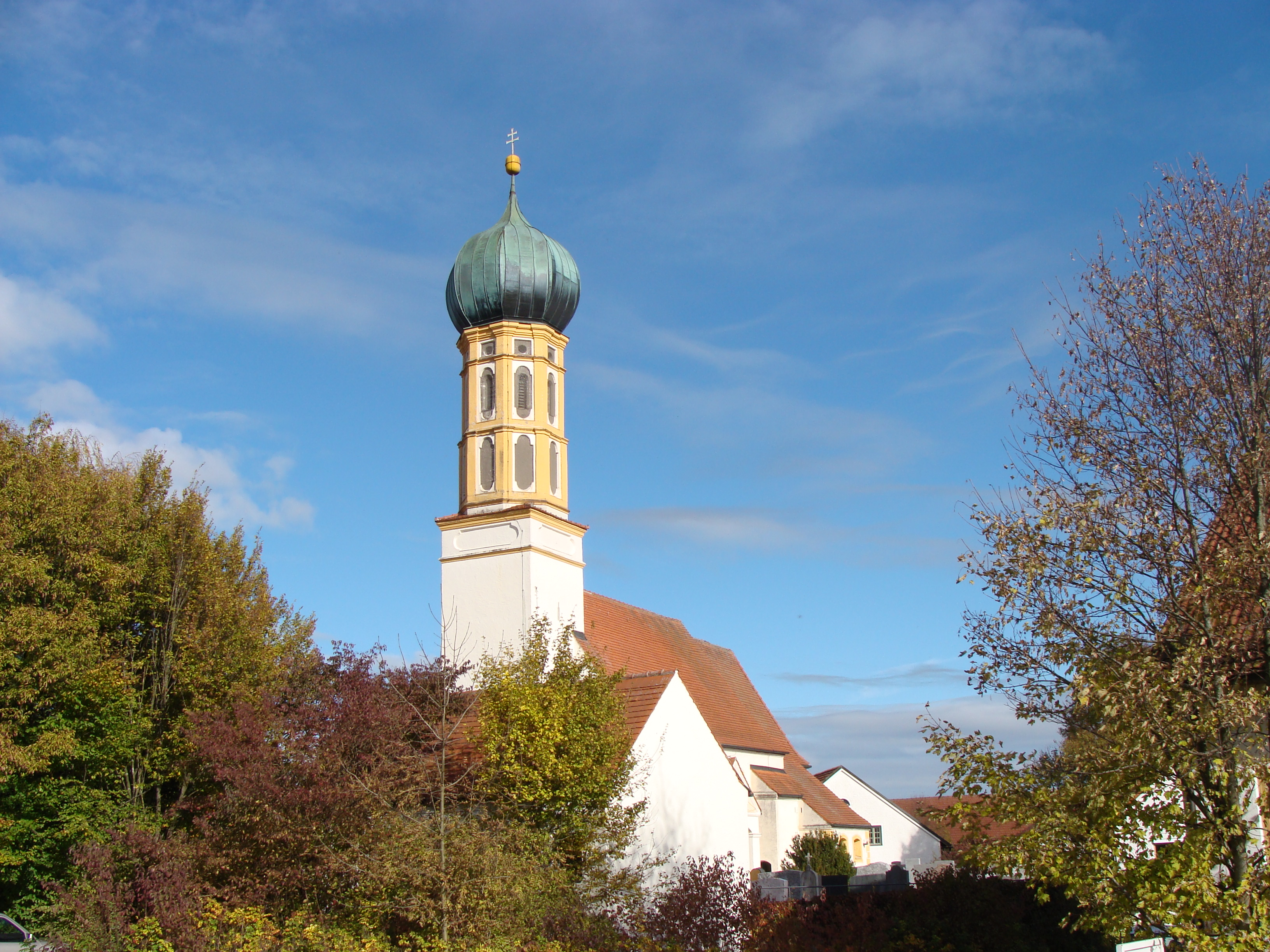 St. Vitus Church in Fahrenzhausen